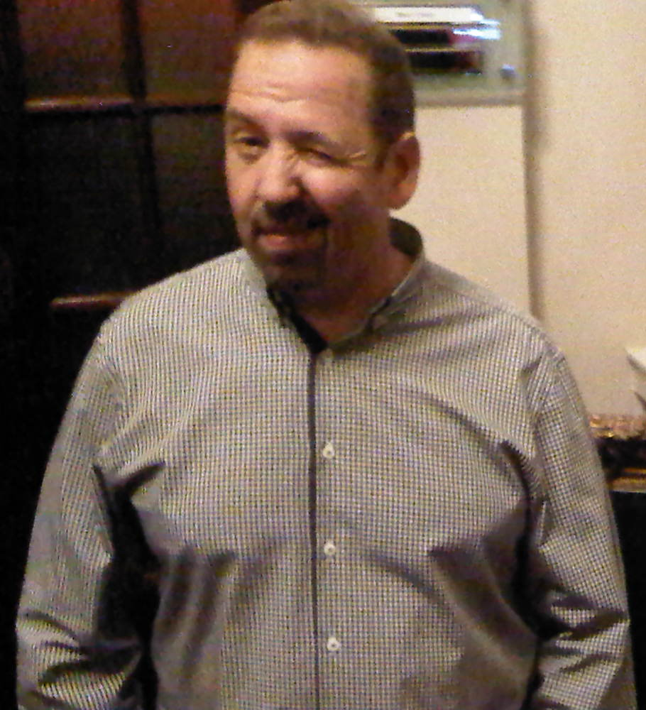 Alfie Moore Police Comedian from BBC Radio 4 Comedy